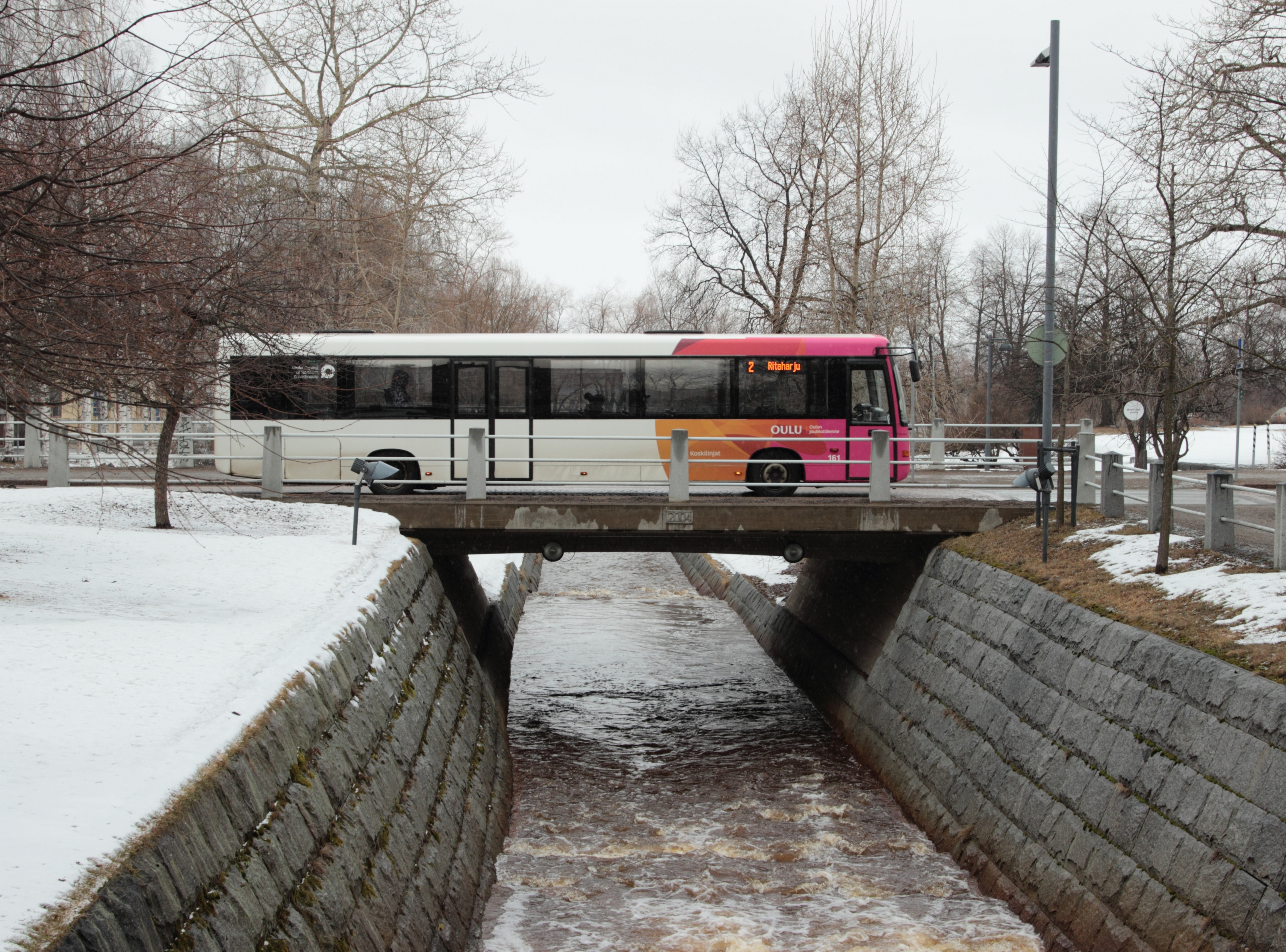 A bus on the Torikatu bridge in Oulu.